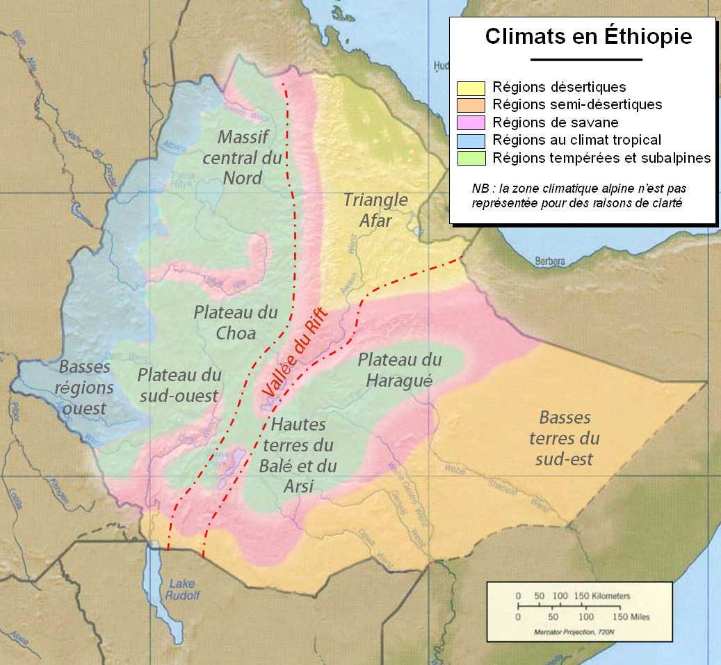 Map of climates in Ethiopia